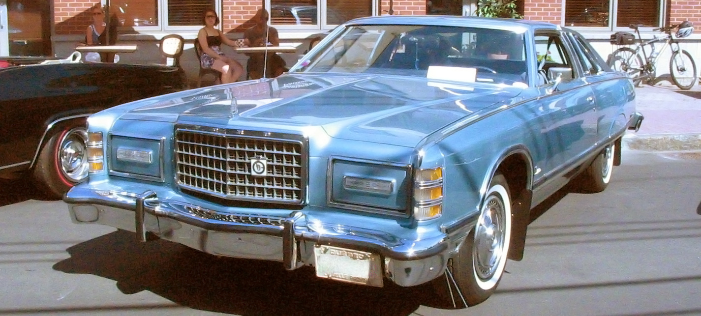 1975 Ford LTD photographed in Pointe-Claire, Quebec, Canada at the Auto classique Pointe-Claire 2011.